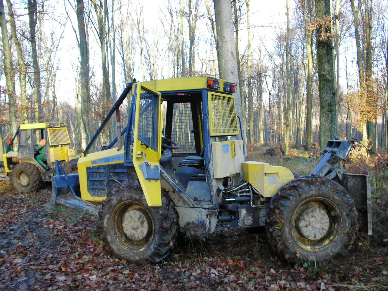 Skidder Ecotrac in Croatia